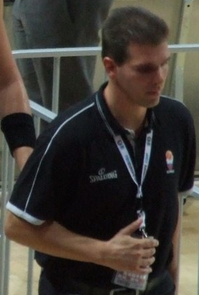 Slovenia vs. Great Britain at EuroBasket 2009.